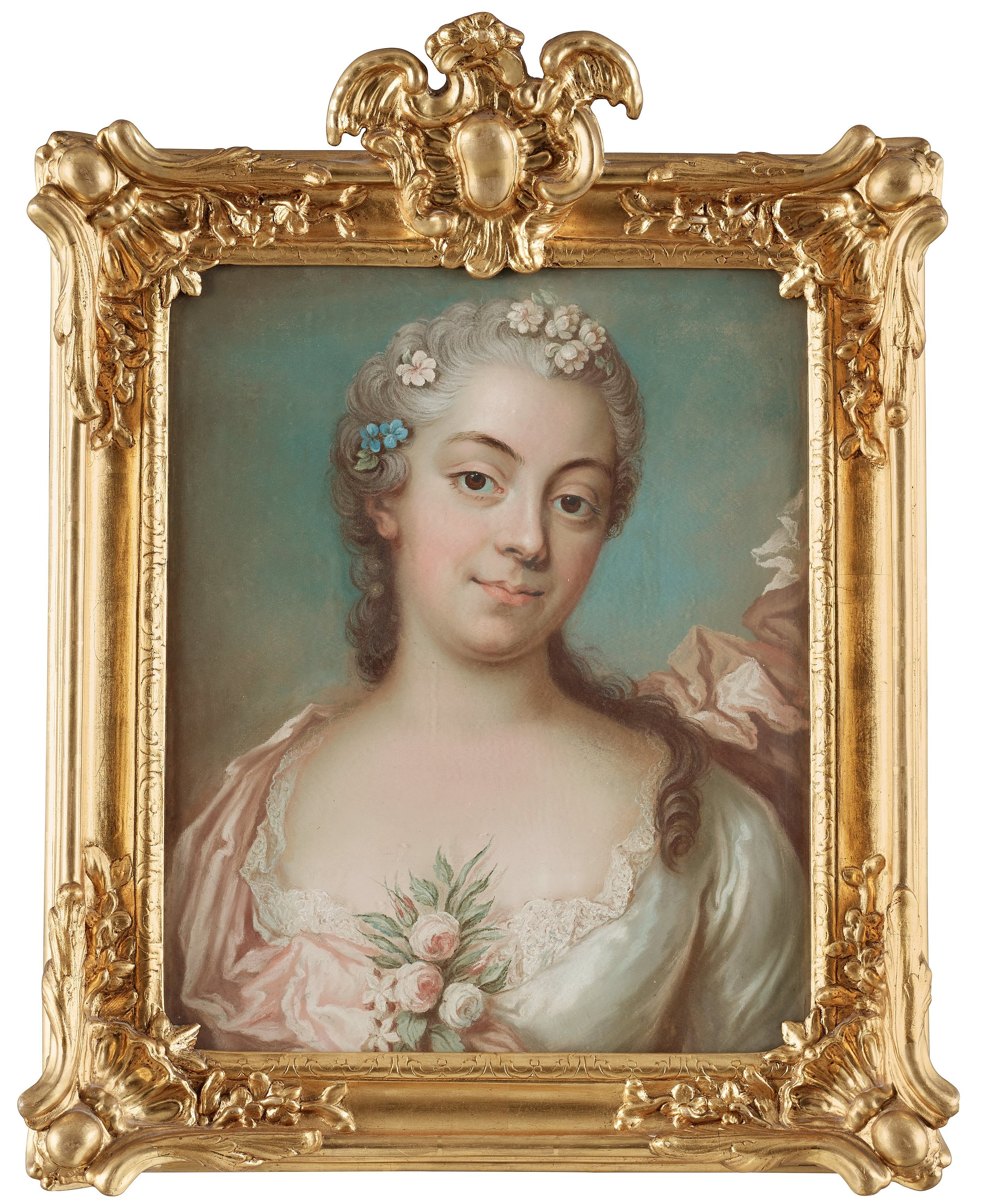 Christina von Heidenstam, née Groen. Lived 1734-1769. Painting by Gustaf Lundberg.